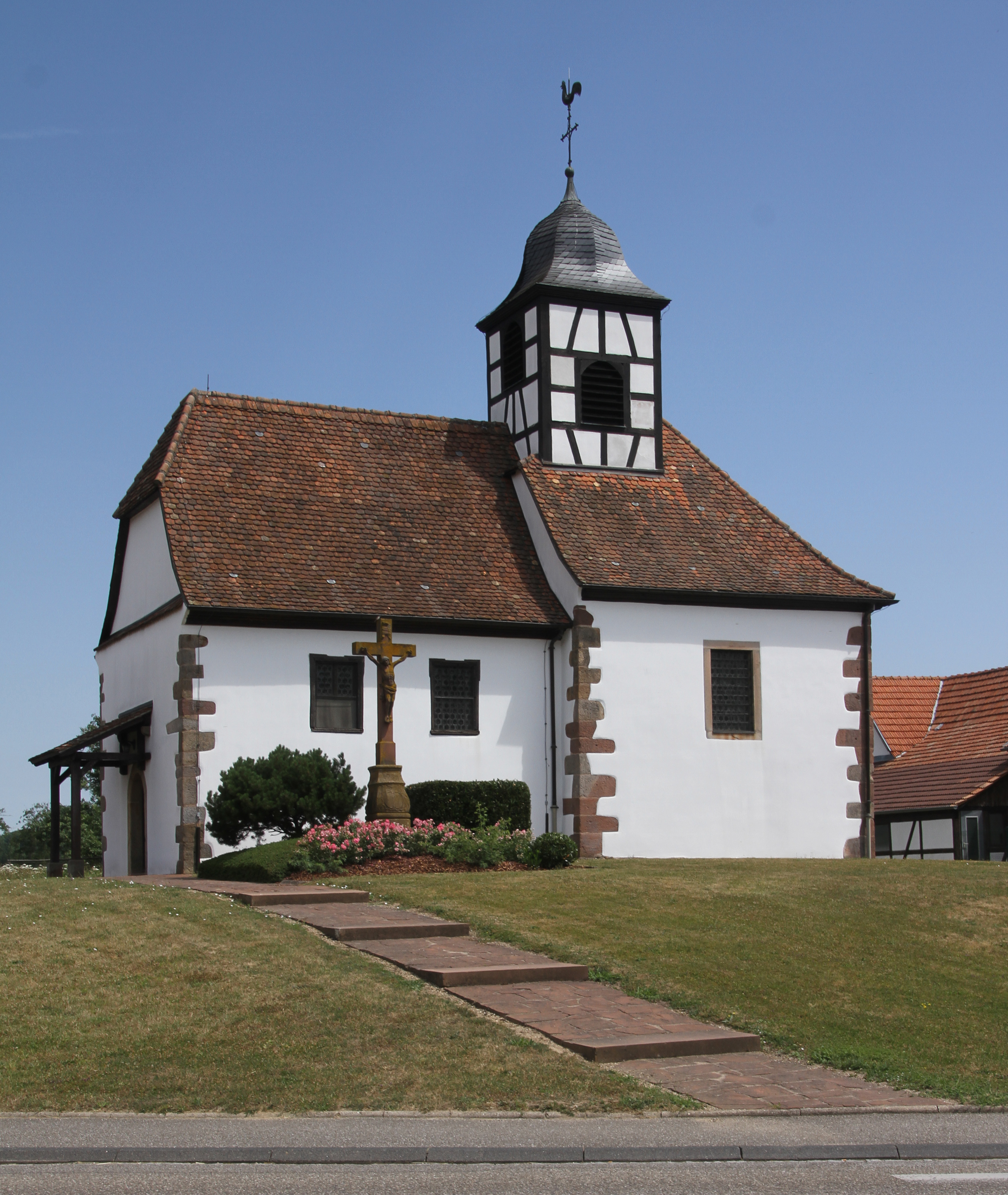 Protestant church in Leiterswiller.